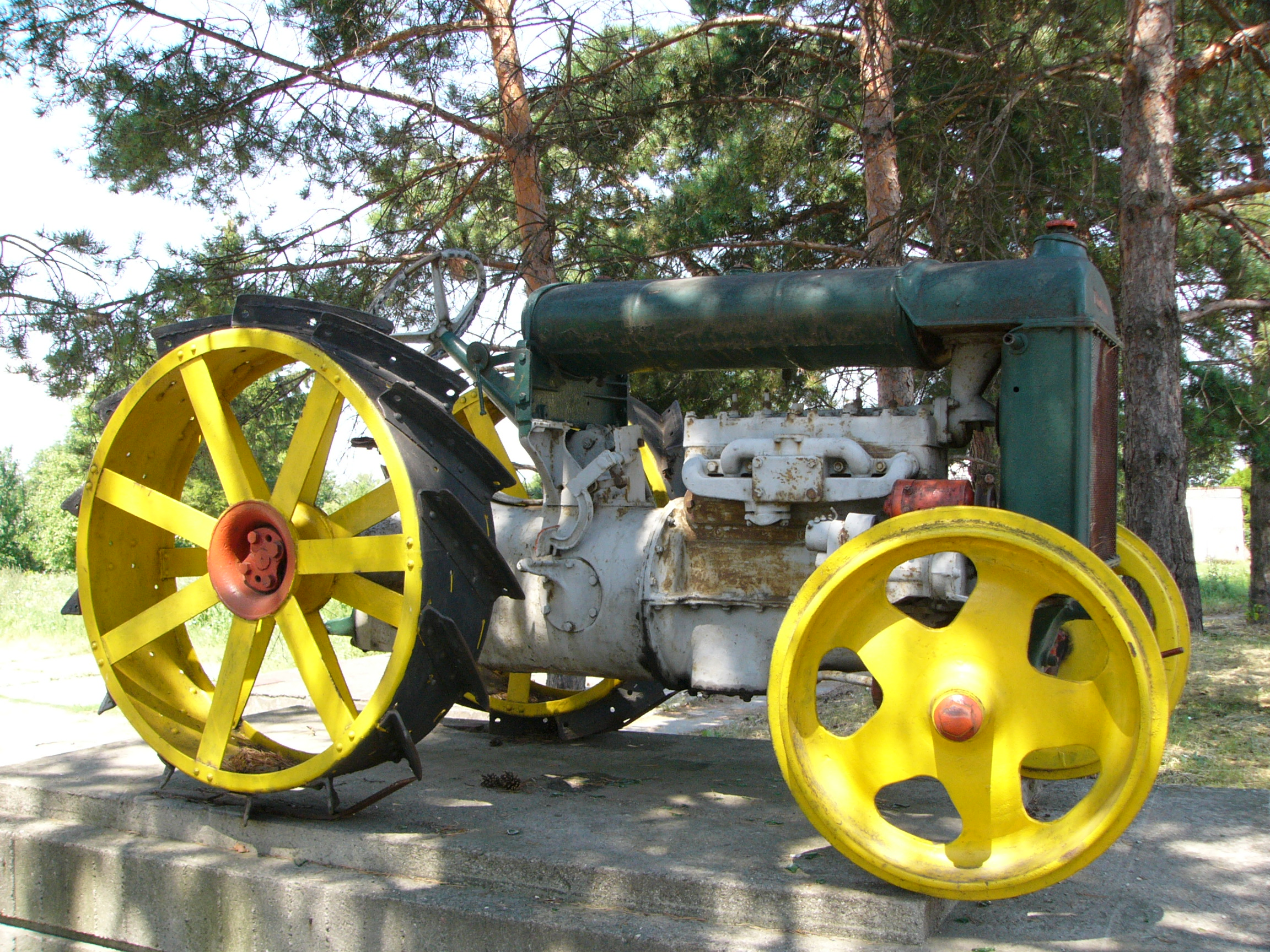 Fordson tractor model F. (Photo has been taken in The Czech Republic).